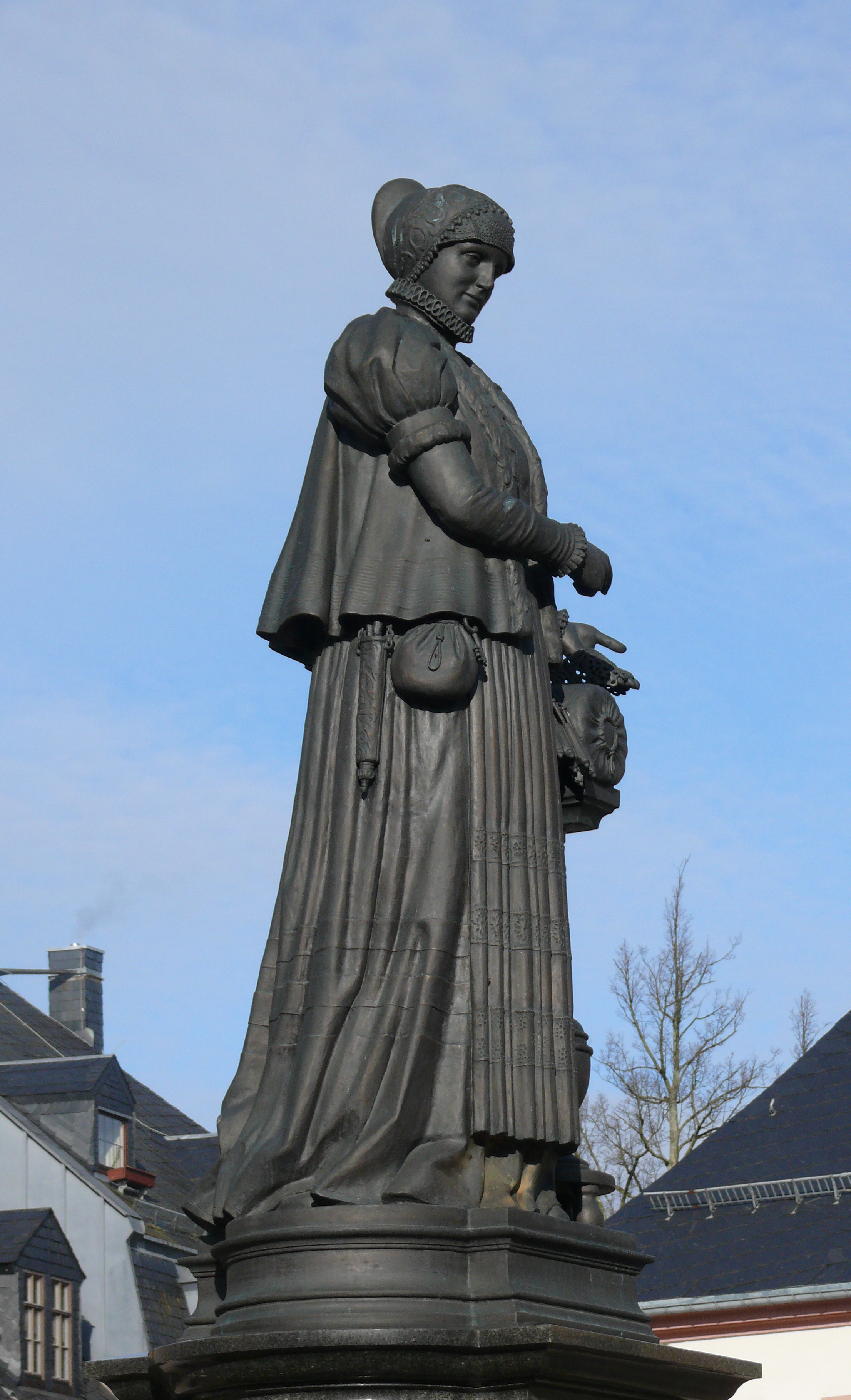 Uthmann Monument at Annaberg-Buchholz, Saxony, GermanyIn 1886 the statue of Barbara Uthmann by the Dresden sculptor Robert Henze was unveiled on Annaberg's market square. The bronze statue was melted for the war production during the Second World War. After a survey it was decided in 1998 to re-erect the statue. The replica of Henze's statue was unveiled on 2 October 2002.